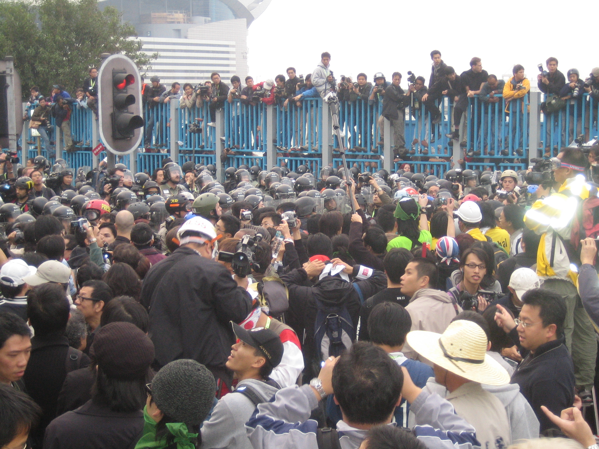 Drew Crofton, 12/13/05. Hong Kong, Wanchai area on Waterfront.